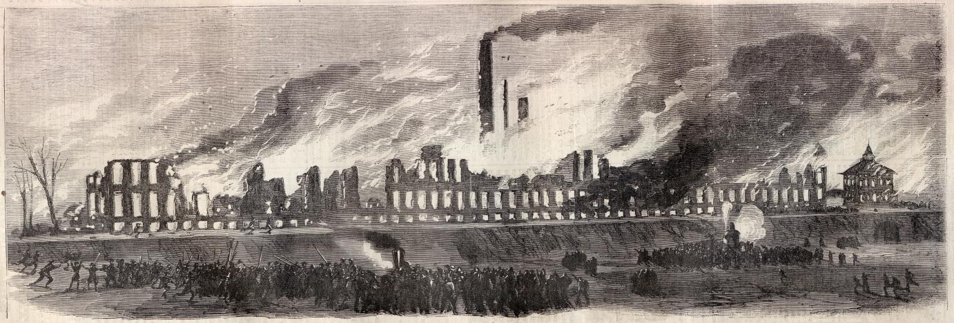 Engraving of Colt Armory fire, Hartford, Connecticut, USA. Contemporary engraving from 1864. This is the original East Armory building, constructed 1855.